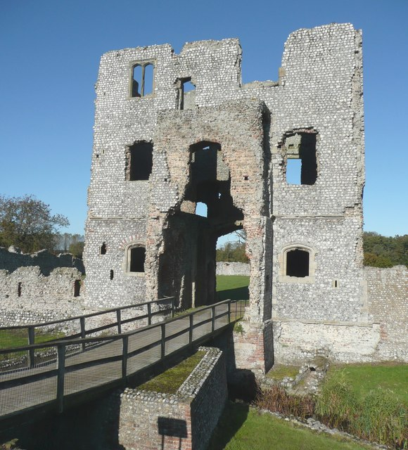 The inner gatehouse, Baconsthorpe Castle, Baconsthorpe Although the moat and mere would have been used for fishing, the drains from the garderobes (see below the right-hand side of the ruin) discharge straight into the moat.